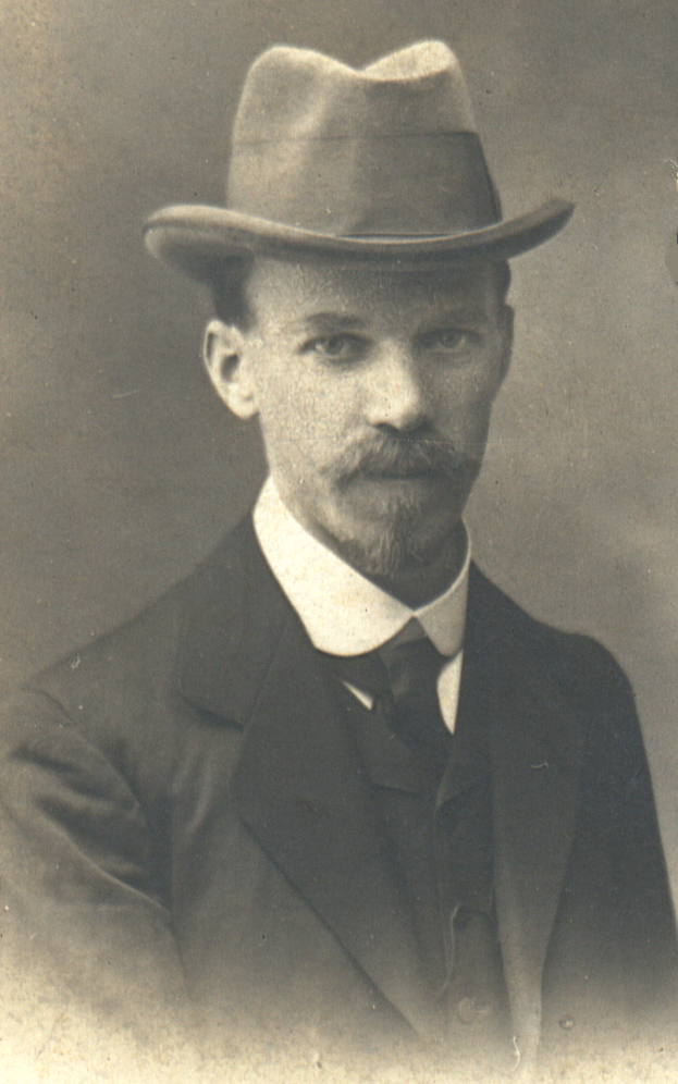 Fragment of photo of betrothal of Adam Skalkowski and Maria Antonina Przesmycka, in Paris in year 1906.